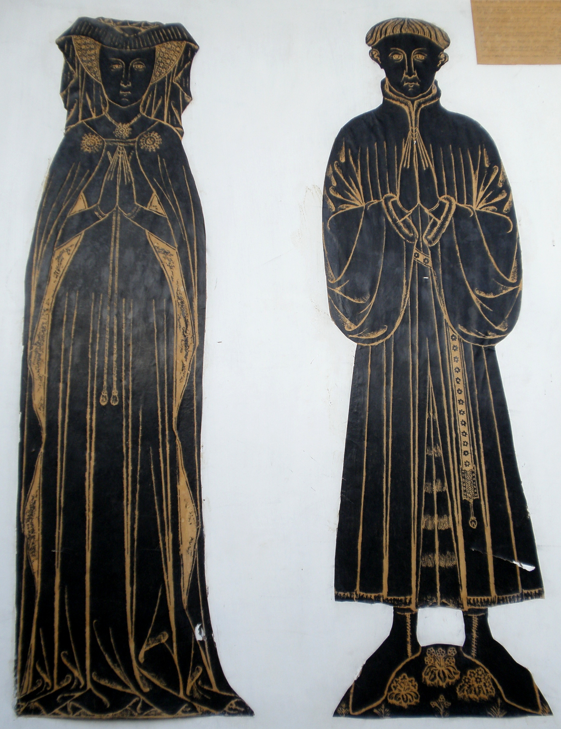 Brass rubbings of Robert Skerne and his wife Joan from All Saints Church, Kingston upon Thames, Surrey. Robert Skerne lived at Downe-Hall (Downhall), in the parish; his wife was daughter of the celebrated Alice Perrers, by some historians supposed to have been Edward III's mistress He was a lawyer it seems and an altogether good sort, according to his inscription. "Roberti cista Skerni corpus tenet ista, Marmorie petre, conjugis atque suæ, Qui validus, sidus, disertus, lege peritus; Nobilis, ingenuus, persidiam renuit: Constans sermone, vitâ, sensu, ratione, Communiter cuique justitiam voluit. Regalis juris unicos promovit honores; Fallere vel falli, res odiosa sibi. Gaudeat in celis, qui vixit in orbe fidelis; Nonas Aprilis pridie qui moritur, Mille quadringentis D[omi]ni trigintaque septem A[ni]mis ipsius Rex miserere Jesu." "The tomb constructed here of marble stone contains All that of Robert Skerne and of his wife remains, He being valient, faithful, cautious, skilled in law, Noble, ingenious, did treachery abhor: Constant in speech, in life, in feeling and in thought, That justice freely and to all was due, he taught. The honours of the royal law alone he prized. To cheat or be deceived a thing he quite despised. May he in heaven rejoice, who lived on earth sincere, Who died upon the fourth of April in the year Of Christ one thousand twenty score and thirty seven. Have mercy on his soul, Jesus, Thou King of Heaven." This brass is in the sanctuary of the church, next to the altar.